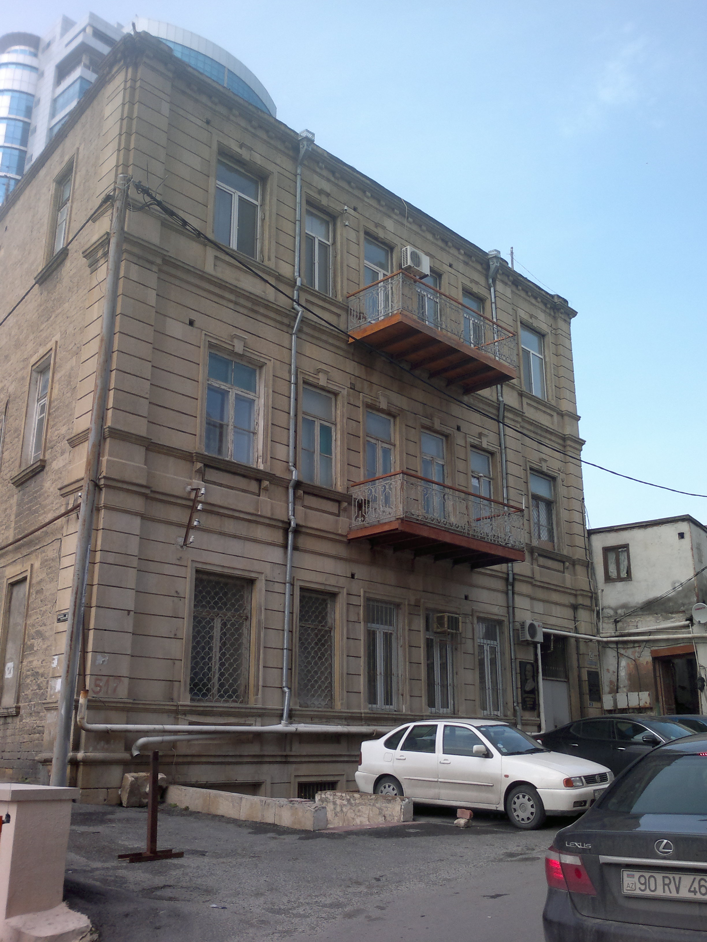 Building on Abdulla Shaig Street 21. Abdulla Shaig live in this house. Nowadays his house-museum is here.